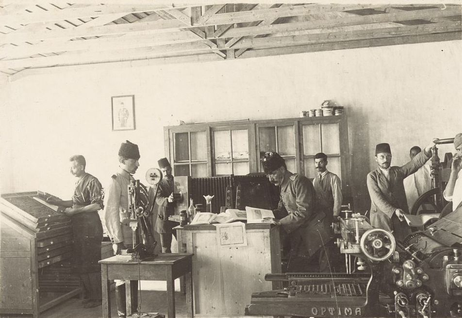 Printing press of the "Showl" (desert) newspaper. Beersheba, 1917